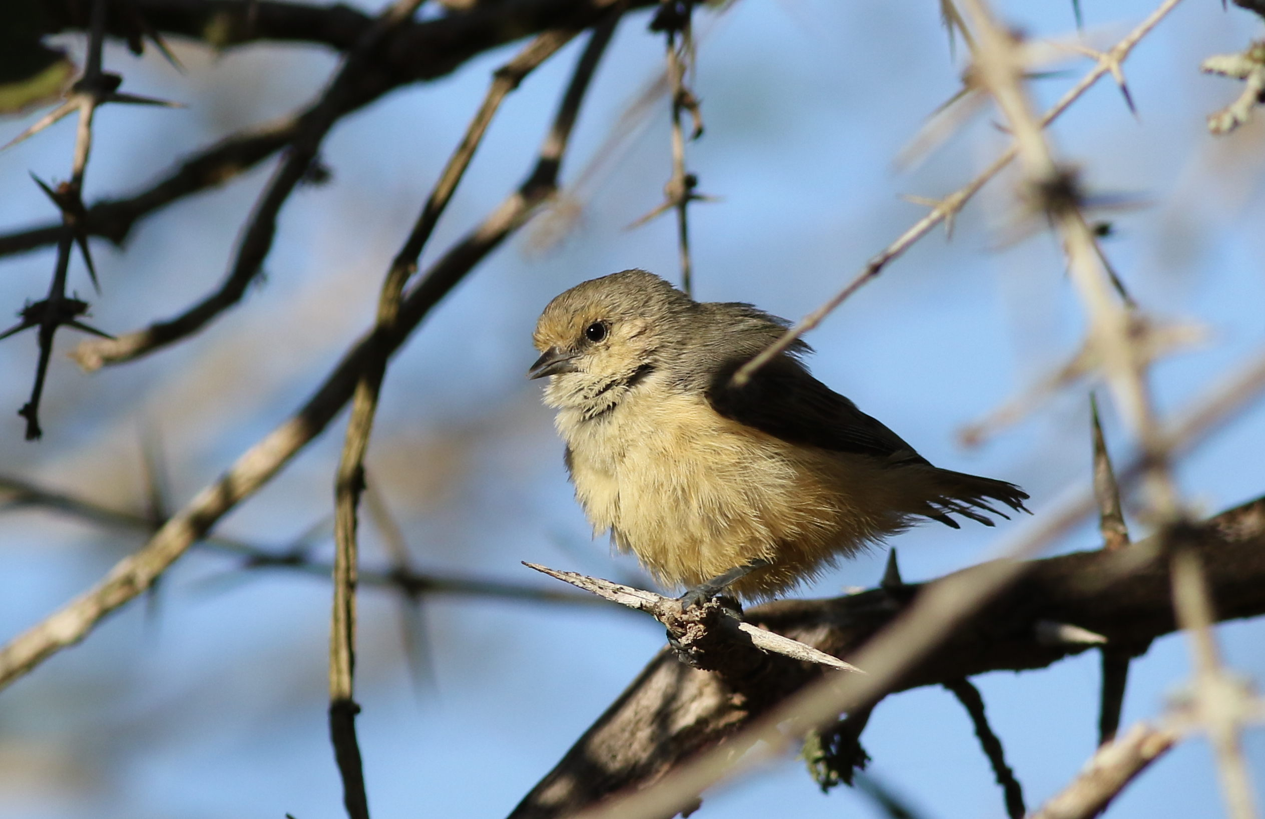 Grey penduline tit, Anthoscopus caroli, also known as the African penduline-tit at Ndumo Nature Reserve, KwaZulu-Natal, South Africa